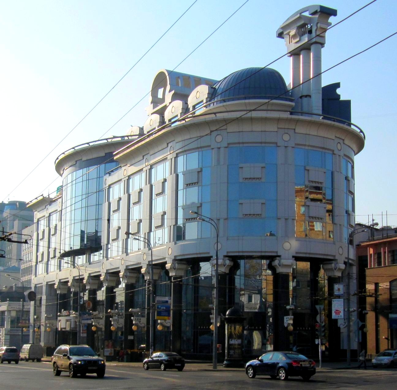 Centre - Theatre Meyerhold in Moscow (Novoslobodskaya Street,23)